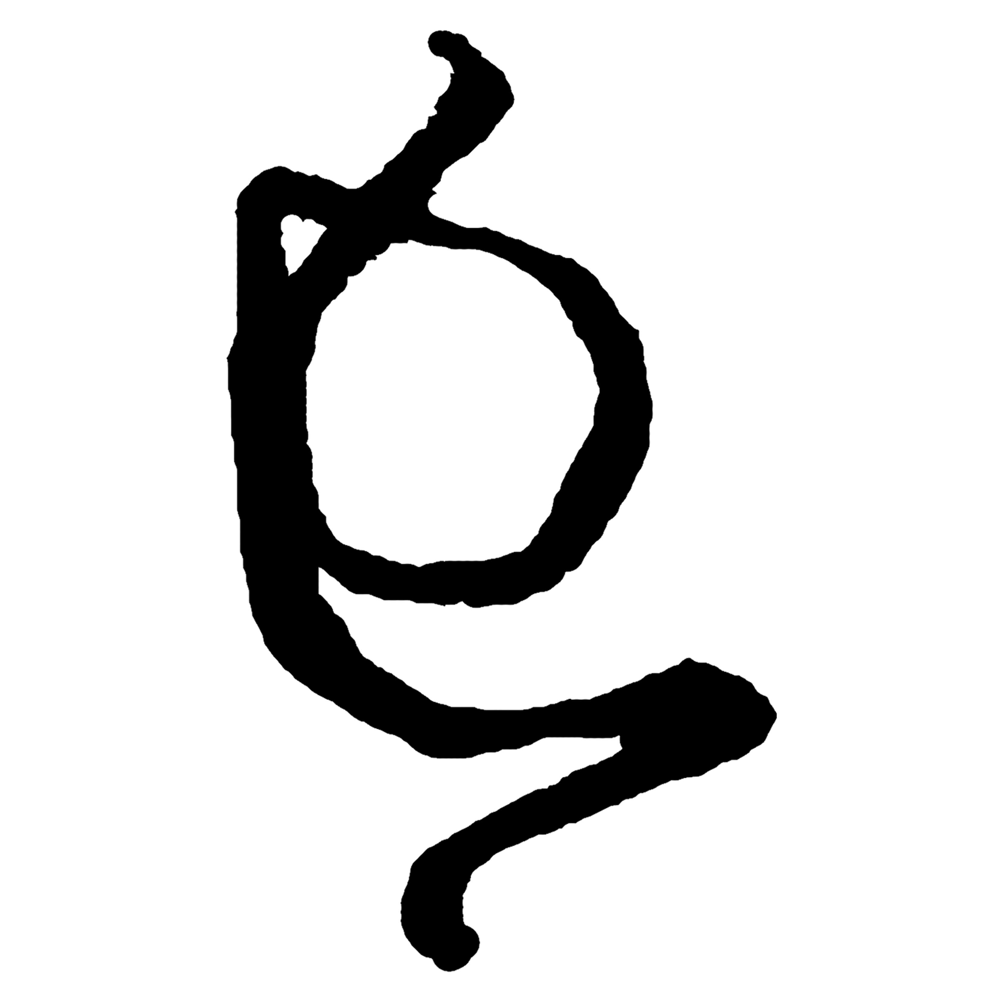 Precision reprographic created from 1666 LEASE AGREEMENT BETWEEN STEPHEN HORSEY AND ANTHONY JOHNSON. For more information, please visit American Slavery: Anthony Johnson, c1600-1670.